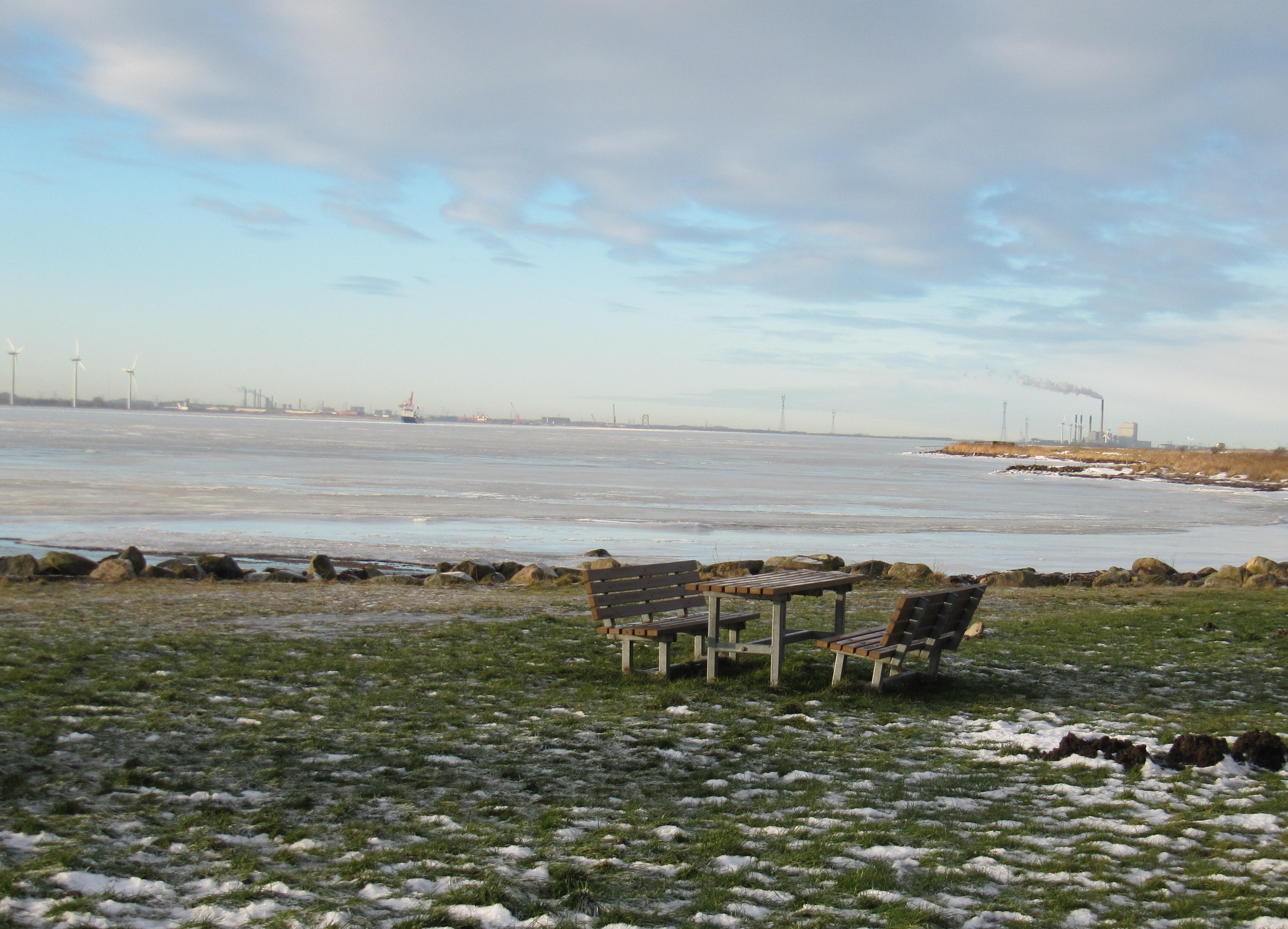 Skiveren at the Limfjord SW of Gandrup; Nordjyllandsværket and Limfjord overhead power line crossings on the horizon